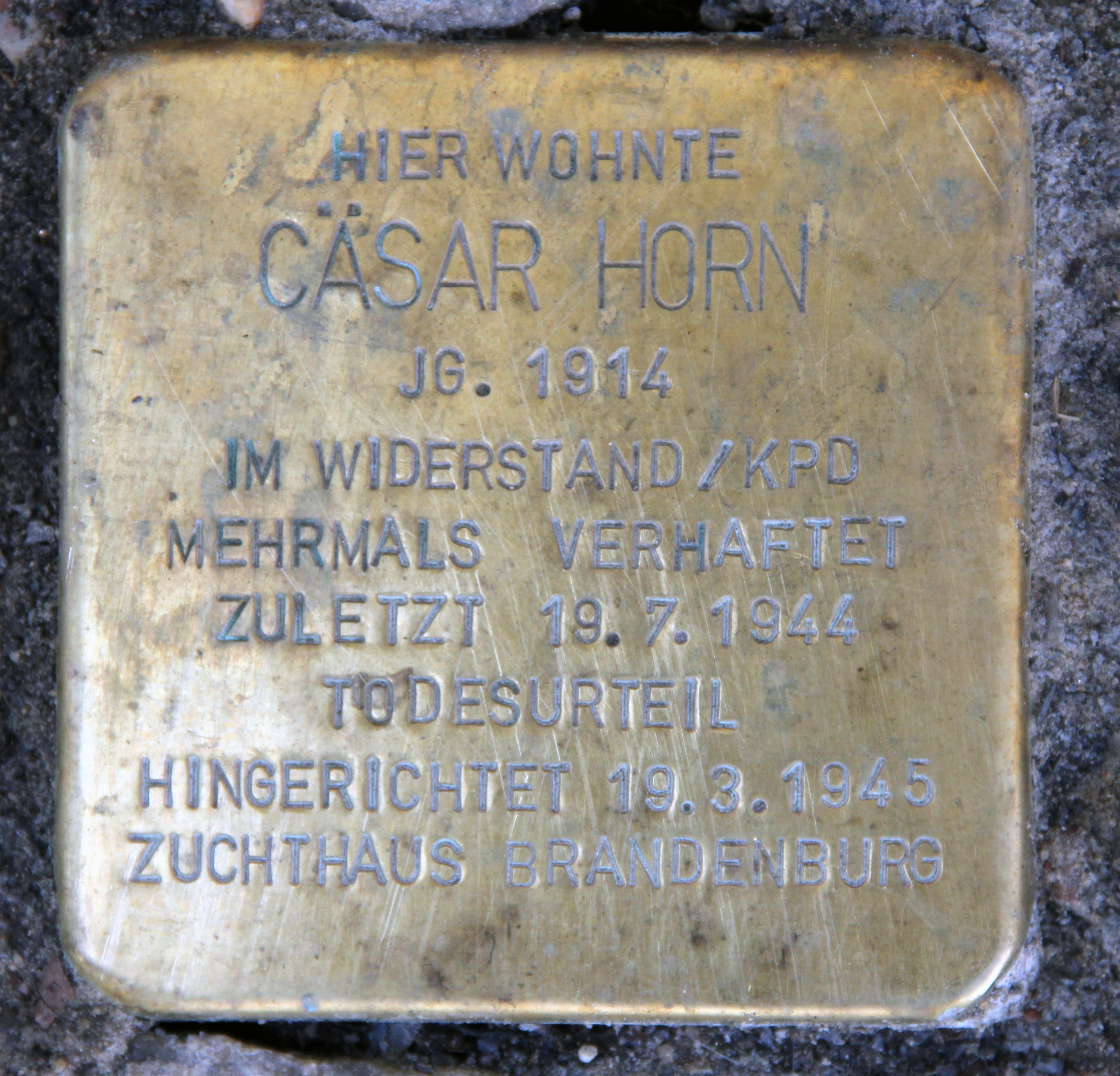 "Stolperstein" (stumbling block), Cäsar Horn, Jasmunder Straße 13, Berlin-Gesundbrunnen, Germany